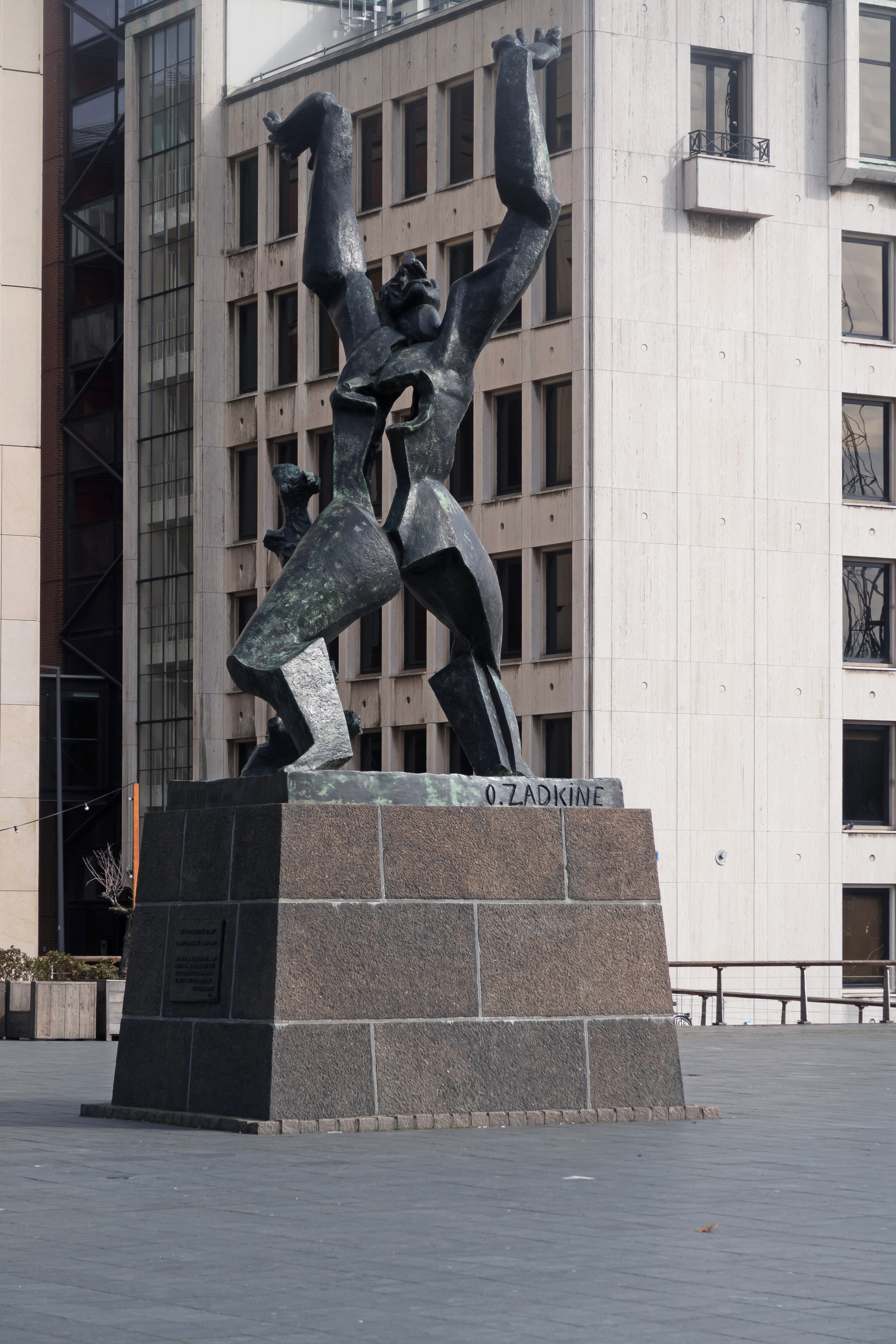 Rotterdam, sculpture: de Verwoeste Stad (the destroyed city) by Ossip Zadkine